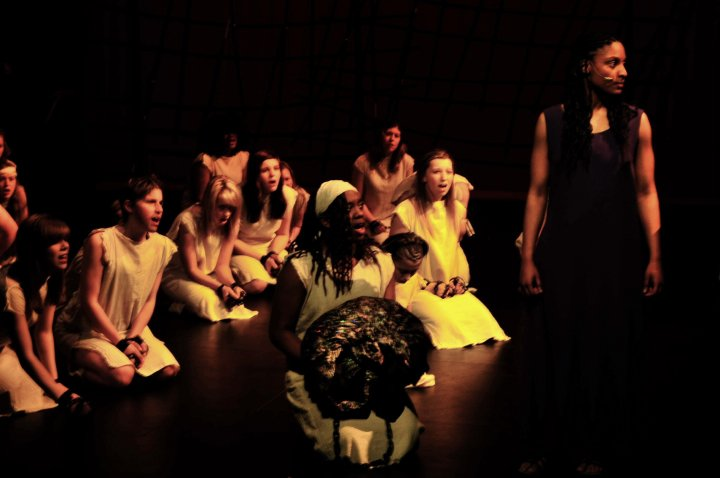 Cole Harbour District High School students performing "Dance of the Robe" from Elton John's Aida